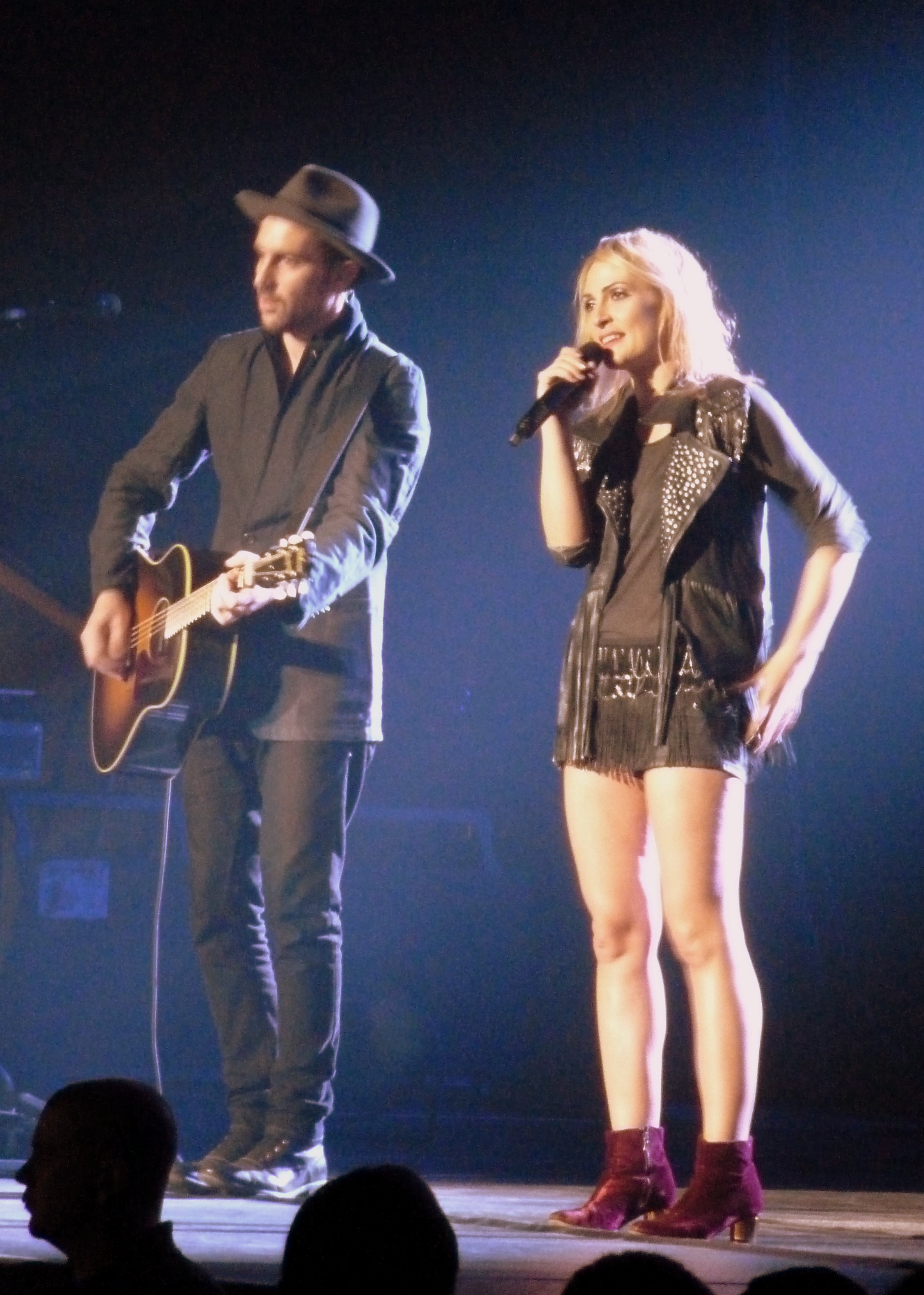 James Shaw and Emily Haines of the Canadian band Metric performing at Budweiser Gardens in London, Ontario